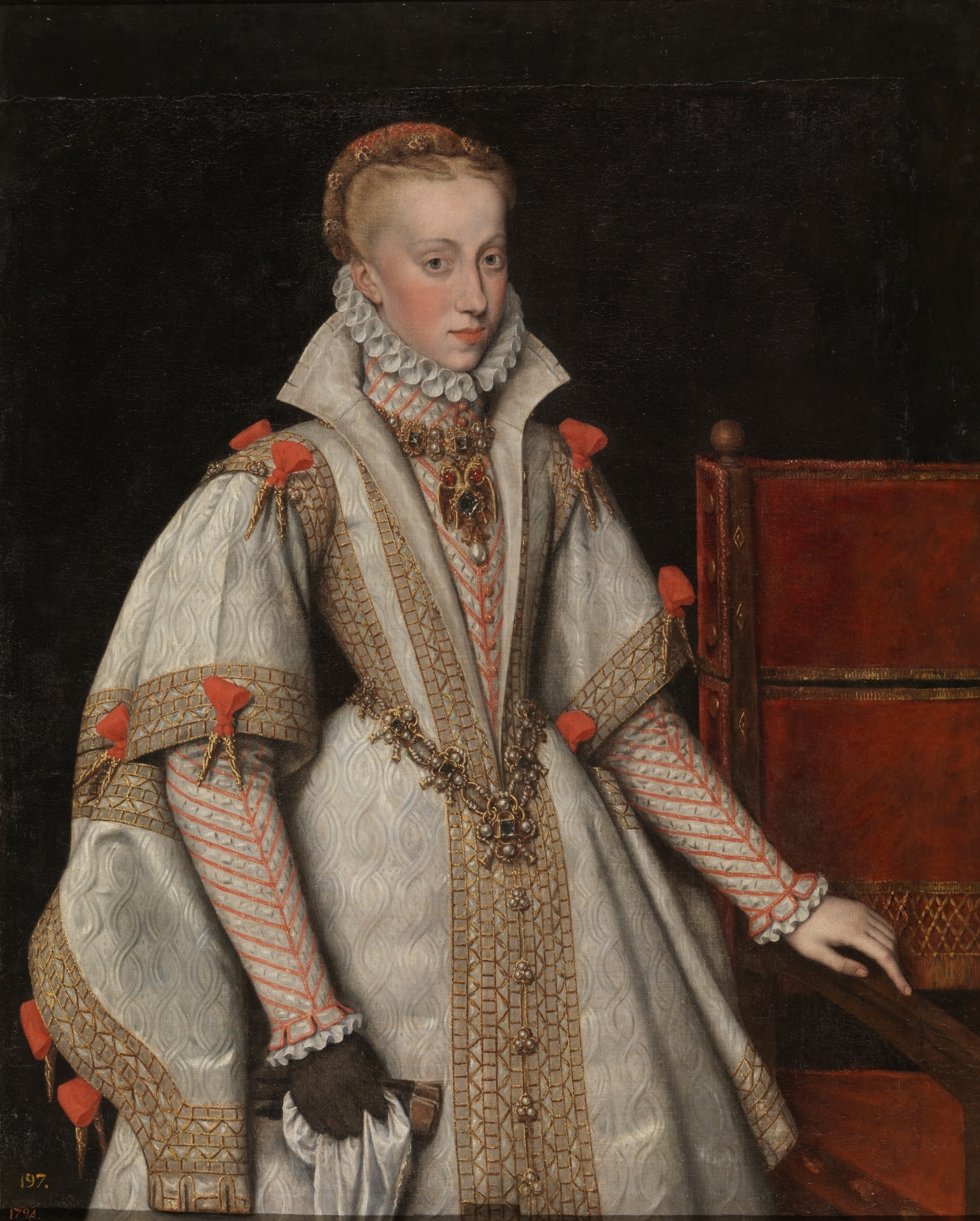 La reina Ana de España, cuarta esposa de Felipe II